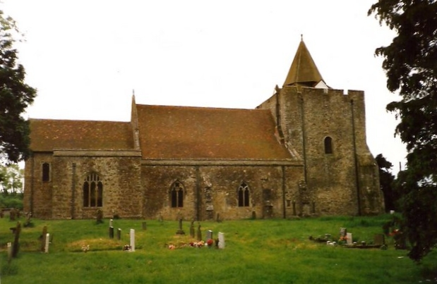 St. Nicholas' Church, Leeds